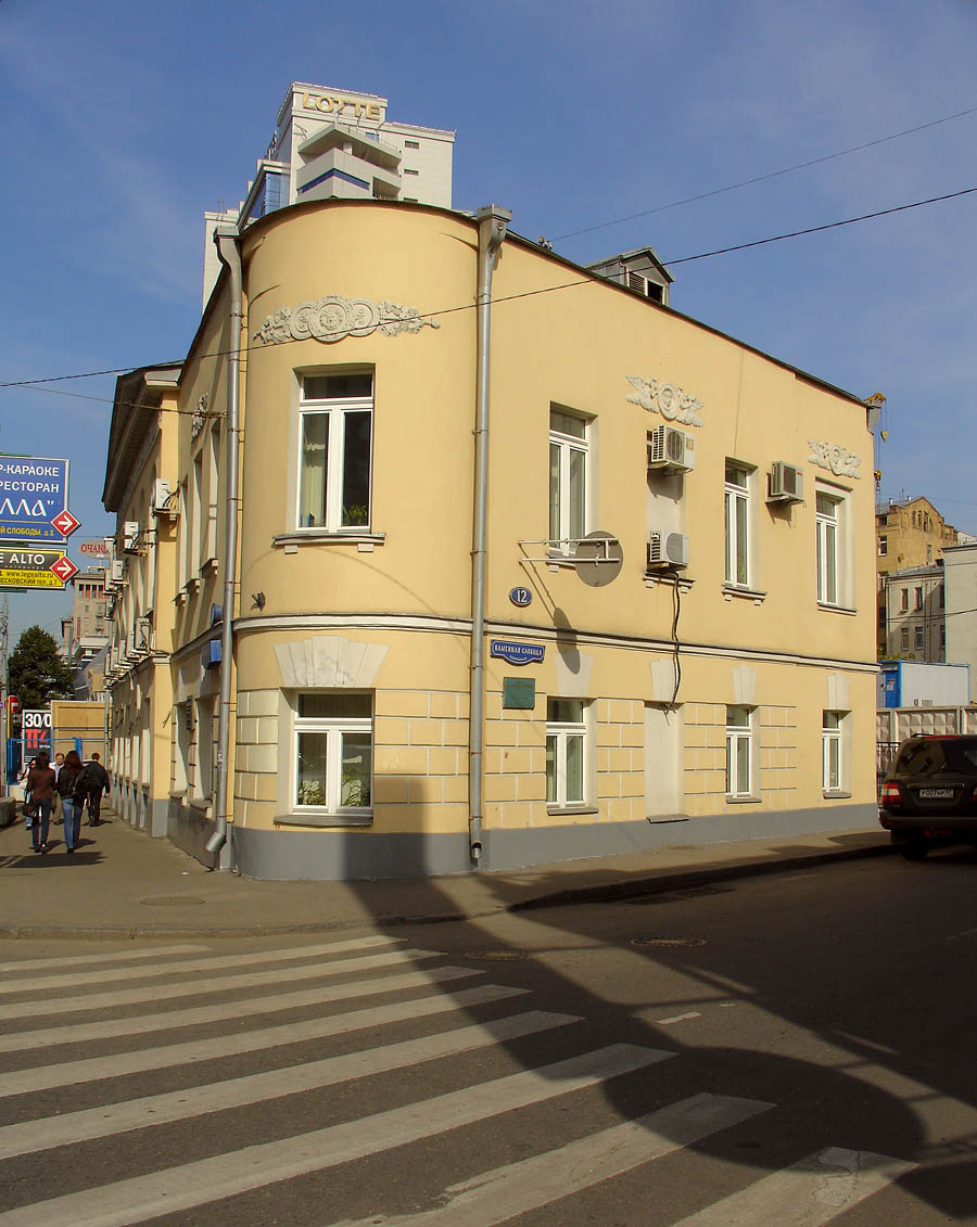 Kamennaya Sloboda Lane, Moscow, corner of Garden Ring